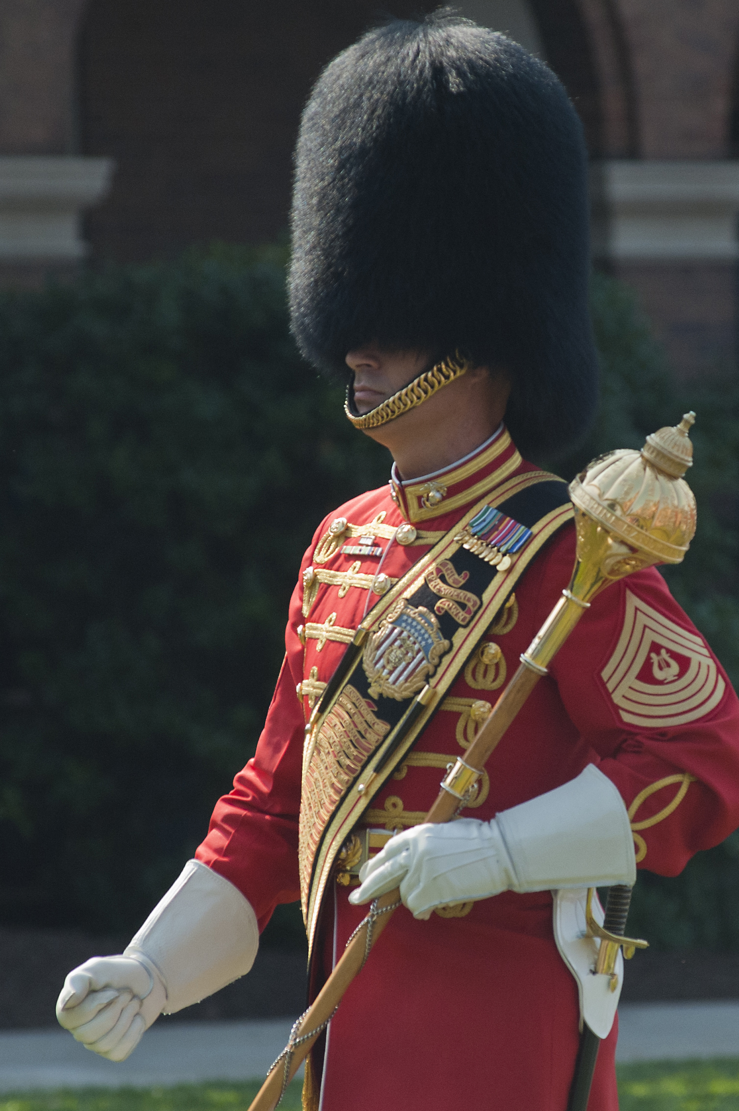 Master Gunnery Sgt. William L. Brown, U.S. Marine Band drum major, directs the band during a Congressional Gold Medal ceremony for Montford Point Marines at Marine Barracks Washington June 28. In 1942, President Roosevelt established a presidential directive giving African Americans an opportunity to be recruited into the Marine Corps. Between 1942 and 1949 approximately 20,000 African American Marines received basic training at the segregated Montford Point instead of the traditional boot camps of Parris Island, S.C. and San Diego, Calif. These men fought for their country with honor and valor that are hallmarks of the Corps, but they were not treated as equals to their white counterparts at the time. Gen. James F. Amos, commandant of the Marine Corps, set out to begin to right this wrong when he invited the Montford Point Marines to the Barracks Aug. 26, 2011 to be the guests of honor at a Friday Evening Parade, bringing their story to the national forefront and starting a chain of events that lead to this historic day.